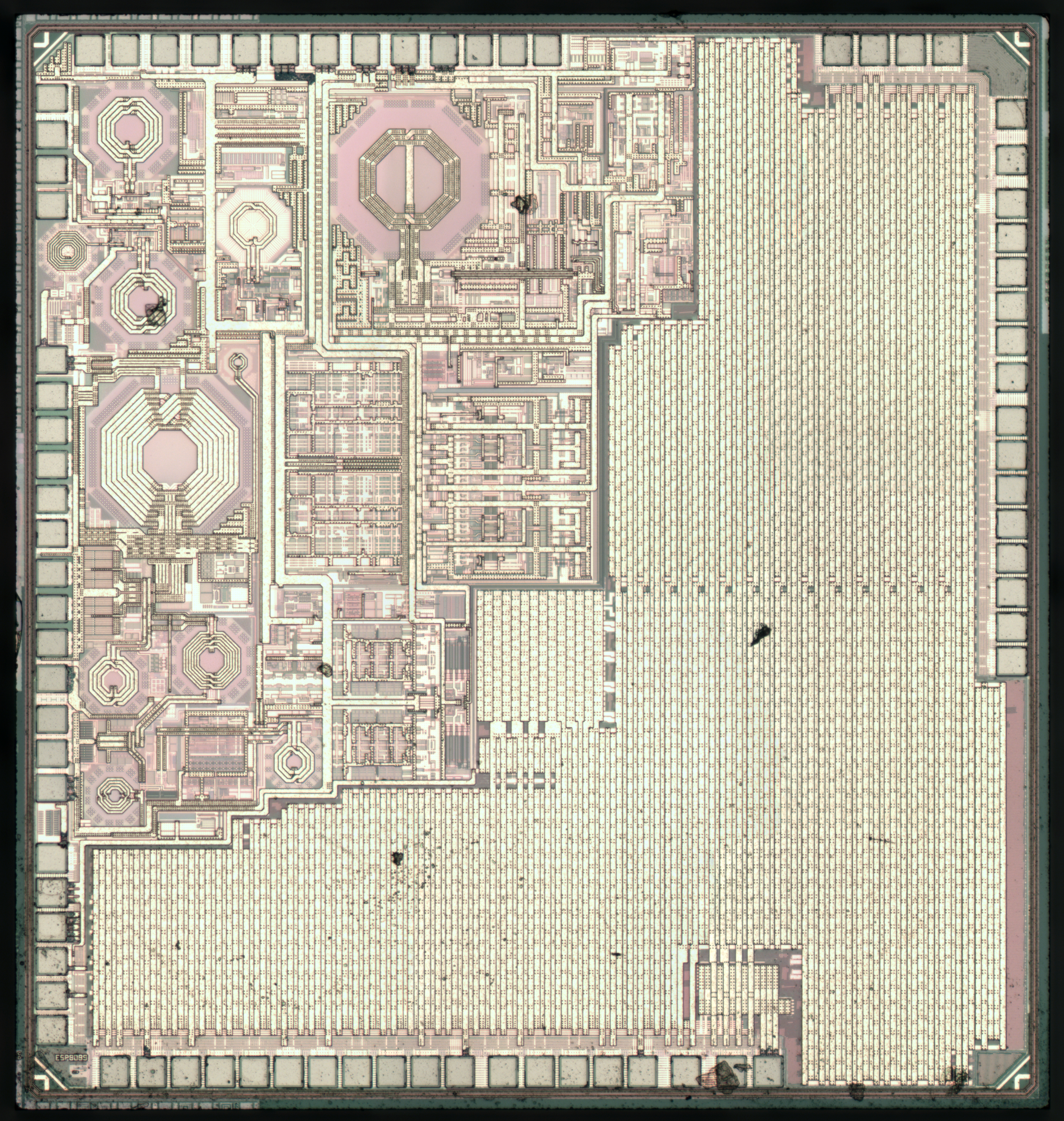 Espressif ESP8266 WiFi-serial interface. Die size 2050x2169µm. Includes transceiver and PA, on-chip memory (~25% die area), Xtensa LX106 CPU core and other digital logic.